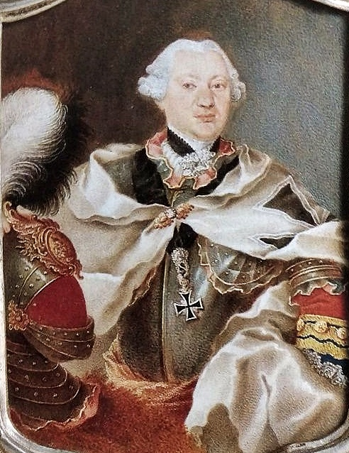 Franz Sigismund Adalbert von Lehrbach (1729-1787), fränkischer Landkomtur des Deutschen Ordens und kaiserlicher Diplomat